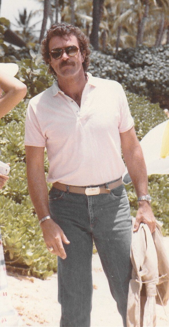 Cropped. Tom Selleck, filming a scene for MAGNUM P.I. in April 1984 at the Kahala Hilton Hotel in Hawaii.